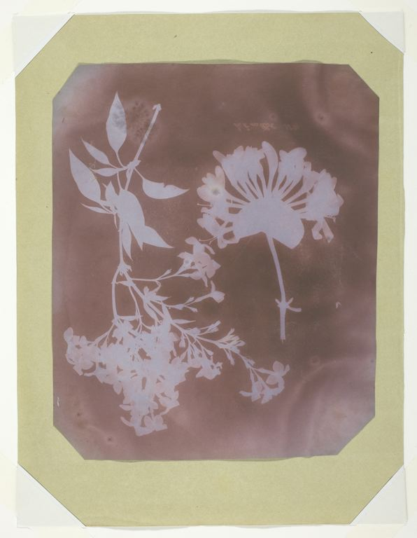 William Henry Fox Talbot English, 1800-1877 Two Plant Specimens, 1839 Photogenic drawing, stabilized (fixed) in ammonia or potassium bromide 22.1 x 18.0 cm Edward E. Ayer Endowment in memory of Charles L. Hutchinson, 1972.325 Photography